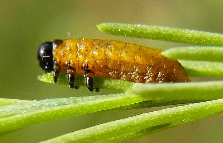 Larva of Crioceris quatuordecimpunctata from Southern Hungary near Kelebia on Asparagus at 2012-05-26